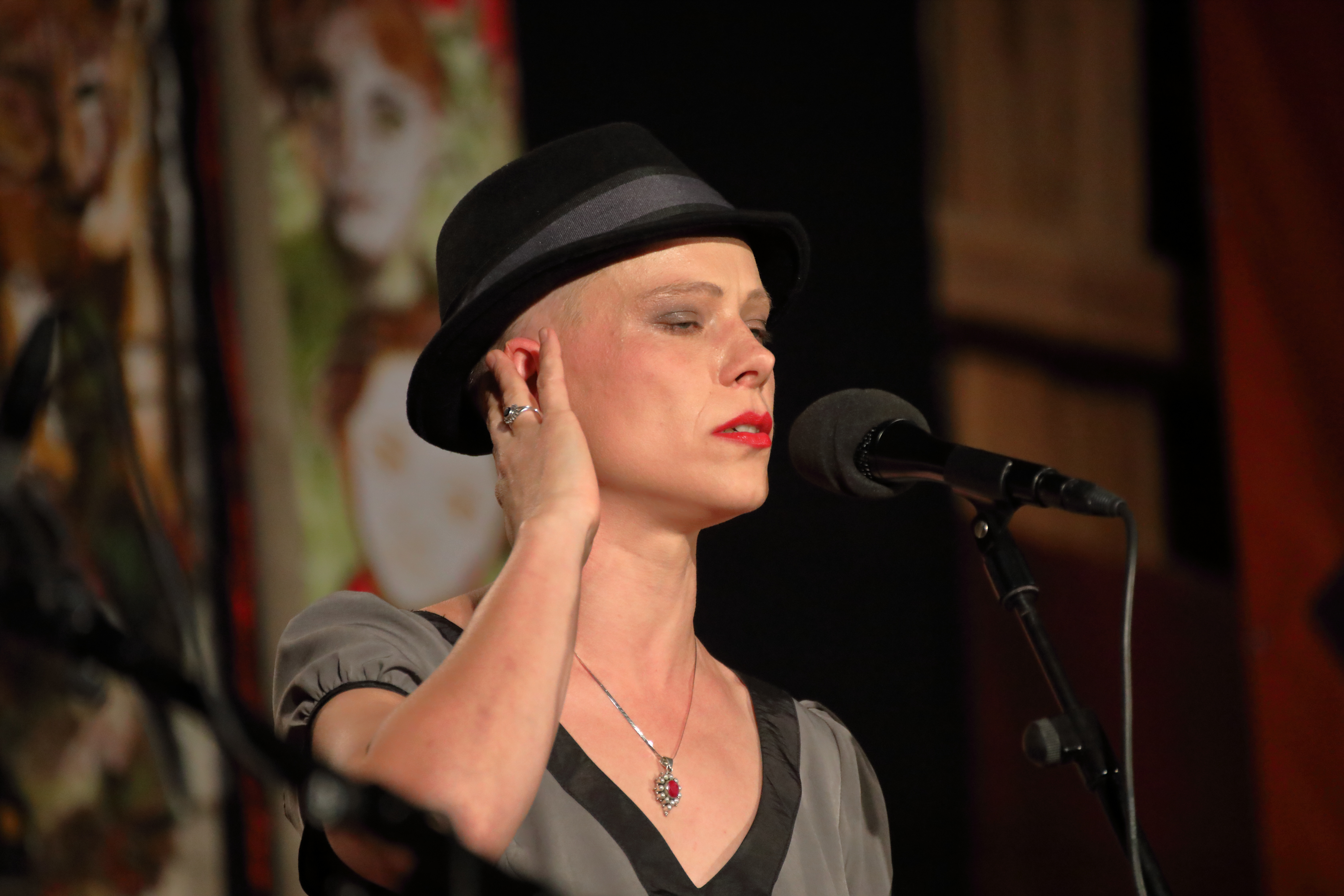 Overtone singer Anna-Maria Hefele with Supersonus at INNtöne Jazzfestival 2019.